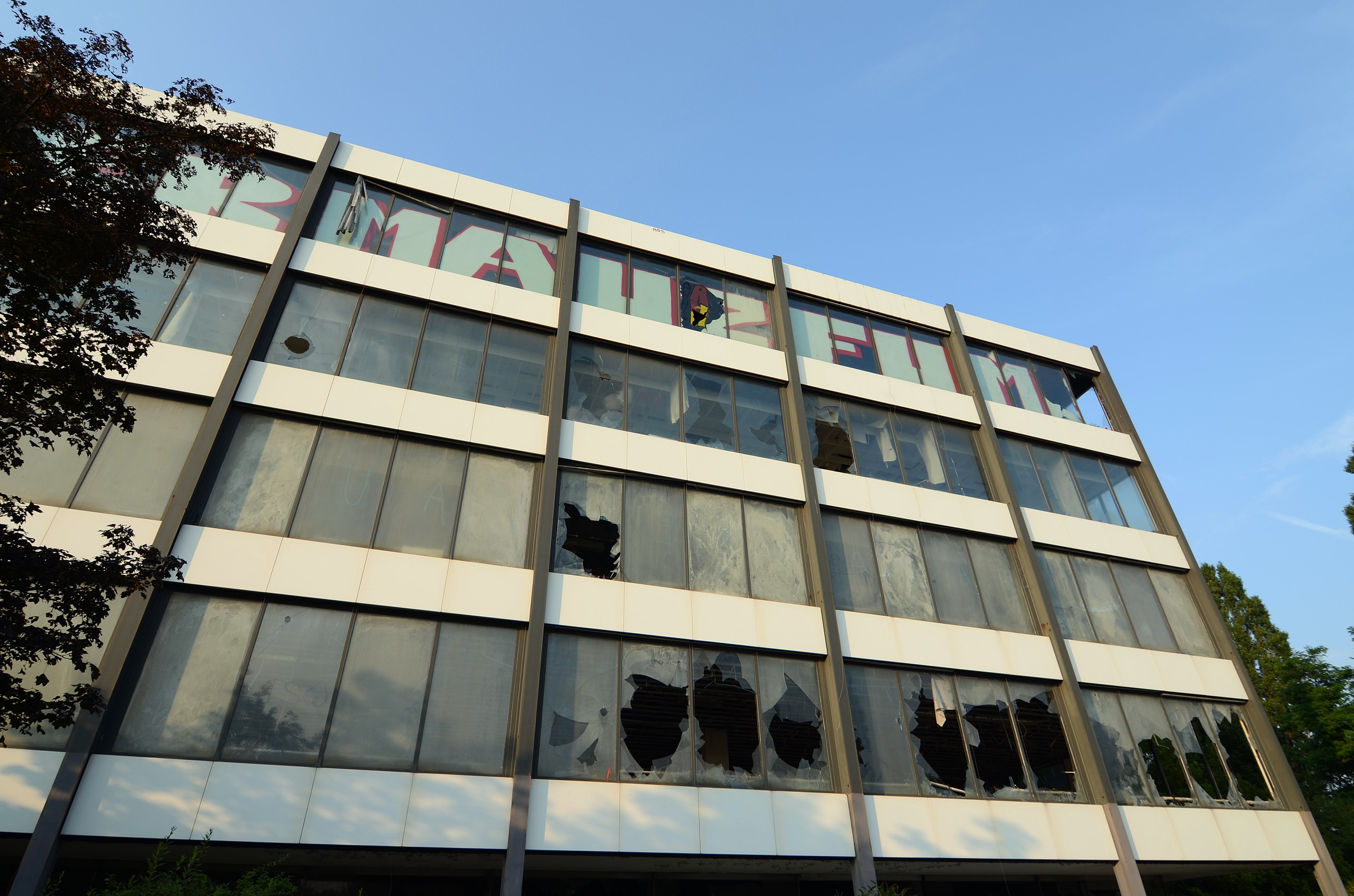 Duisburg (North Rhine-Westphalia, Germany) – borough Rheinhausen, district Mitte – former administration building of Krupp-Industrietechnik – facade detail This photograph was taken with a Nikon D7000.